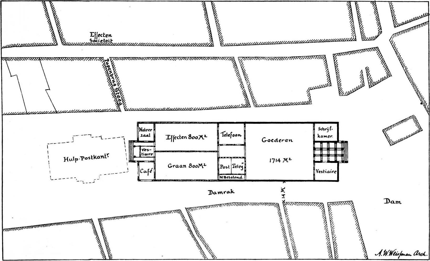 Design for the renovation of Beurs van Zocher, Amsterdam.